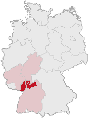 Locator map for the region Rhein-Neckar within Germany